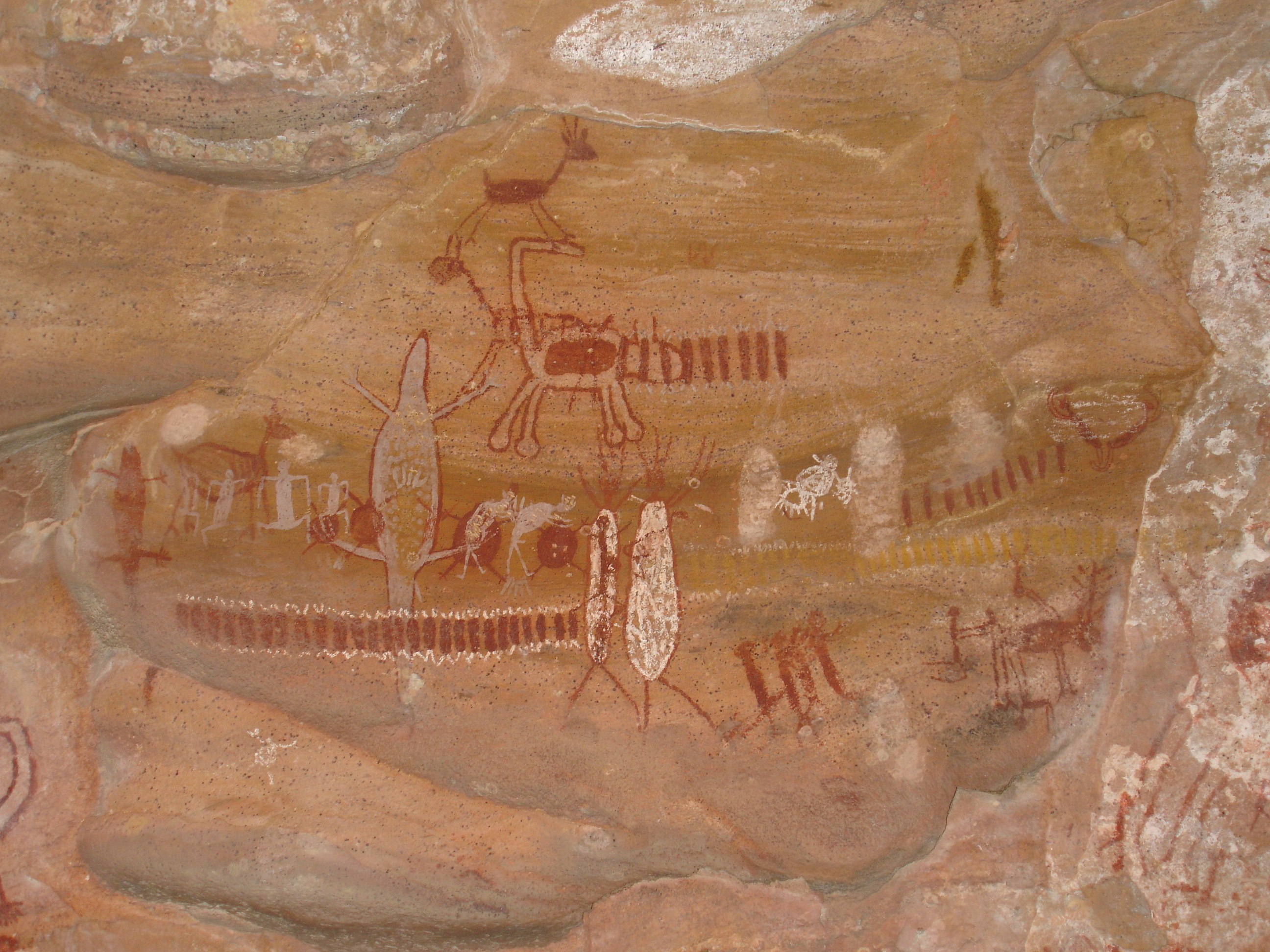 Several paintings.